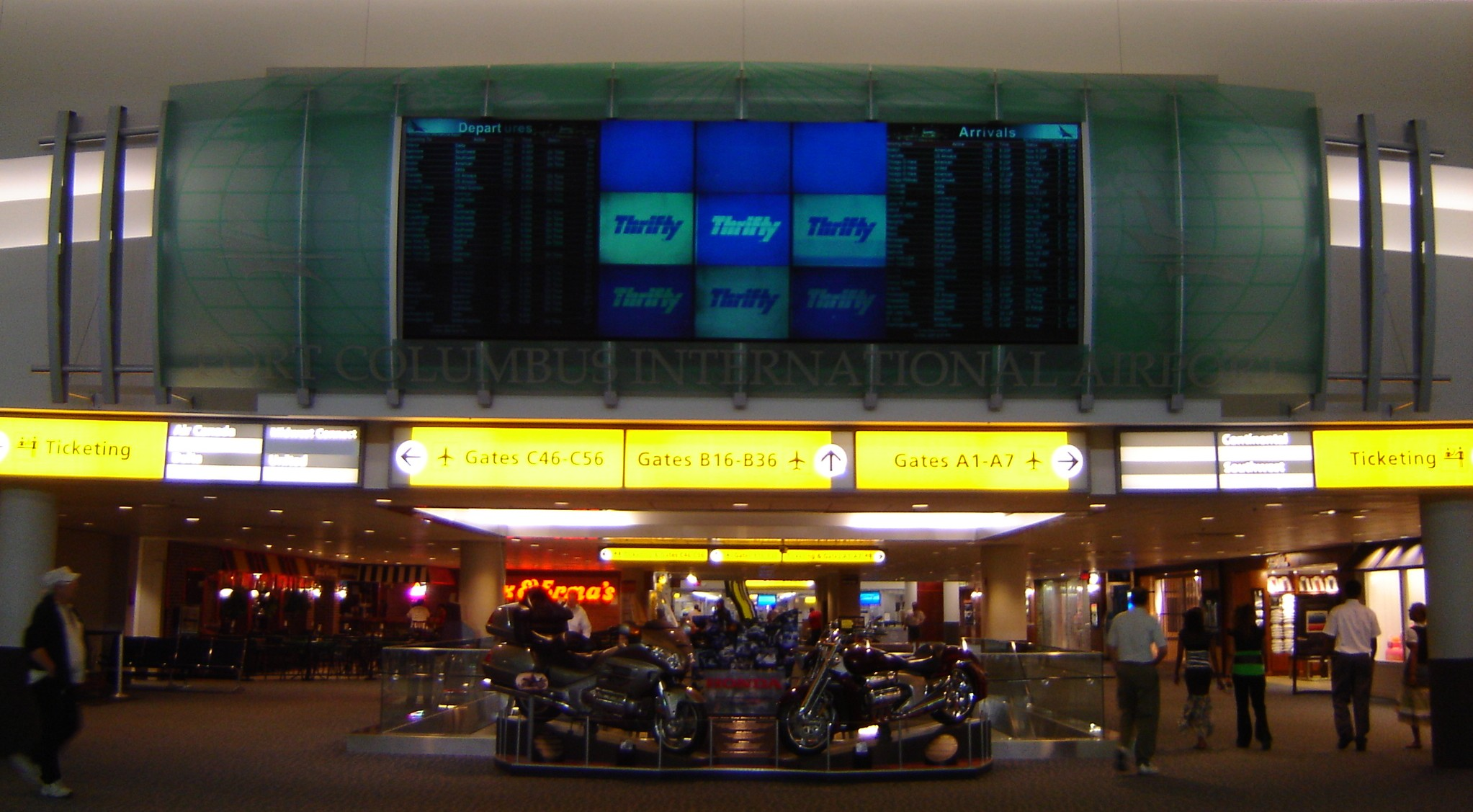 The old arrival/departure board located in the center of the ticketing area at Port Columbus International Airport.